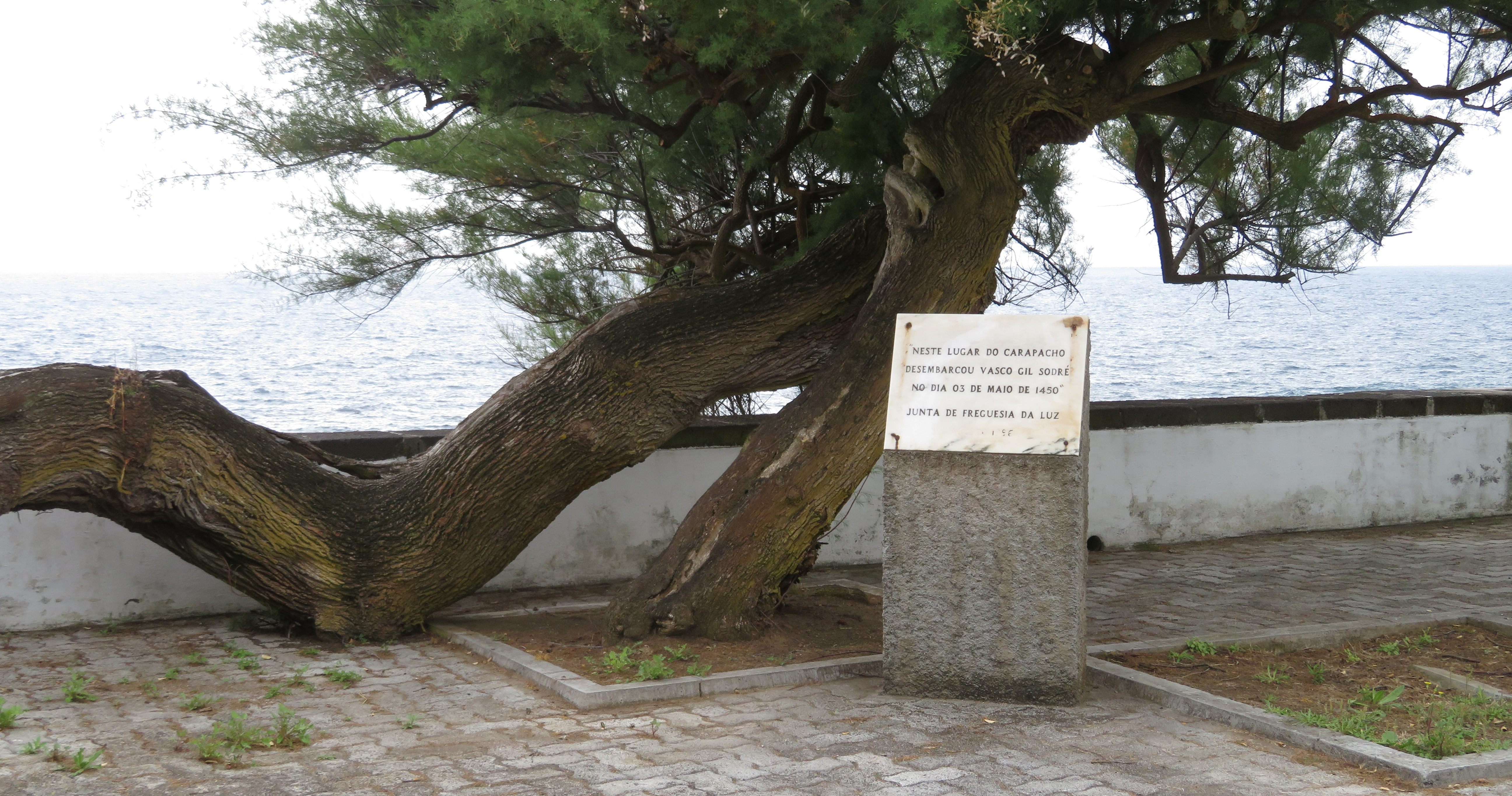 Monument in Carapacho, ilha Graciosa, Azores, Portugal